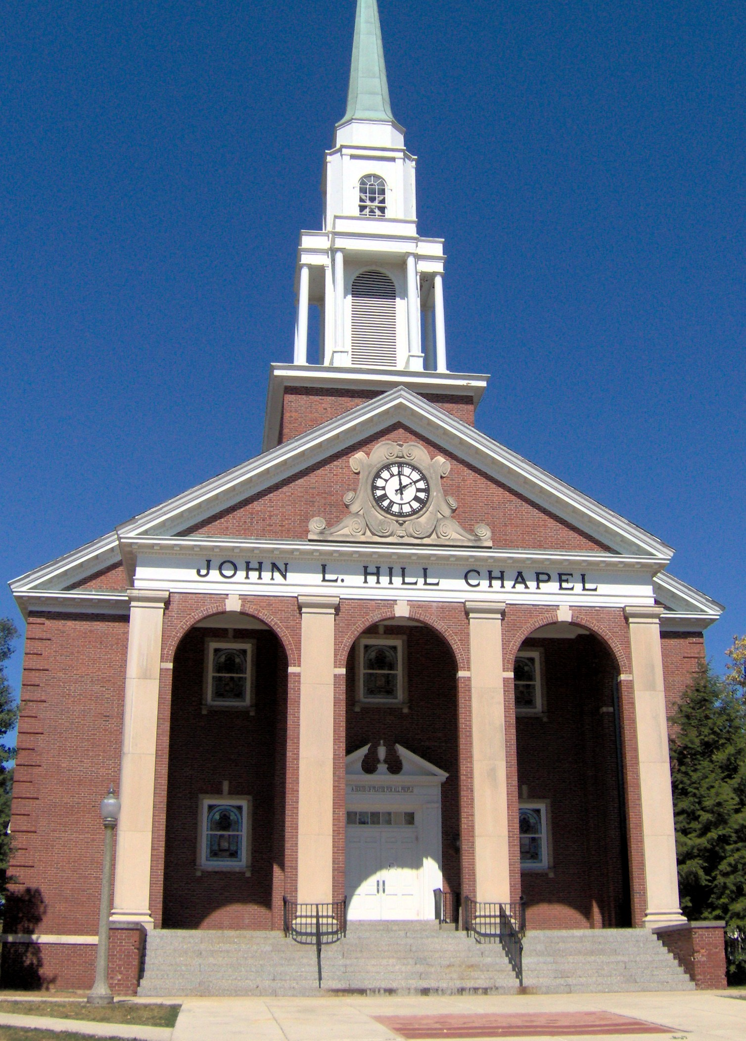 John L. Hill Chapel on Georgetown College's campus in Georgetown, Kentucky.